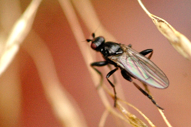 Picture taken in Commanster, Belgian High Ardennes . Species: Copromyza equina